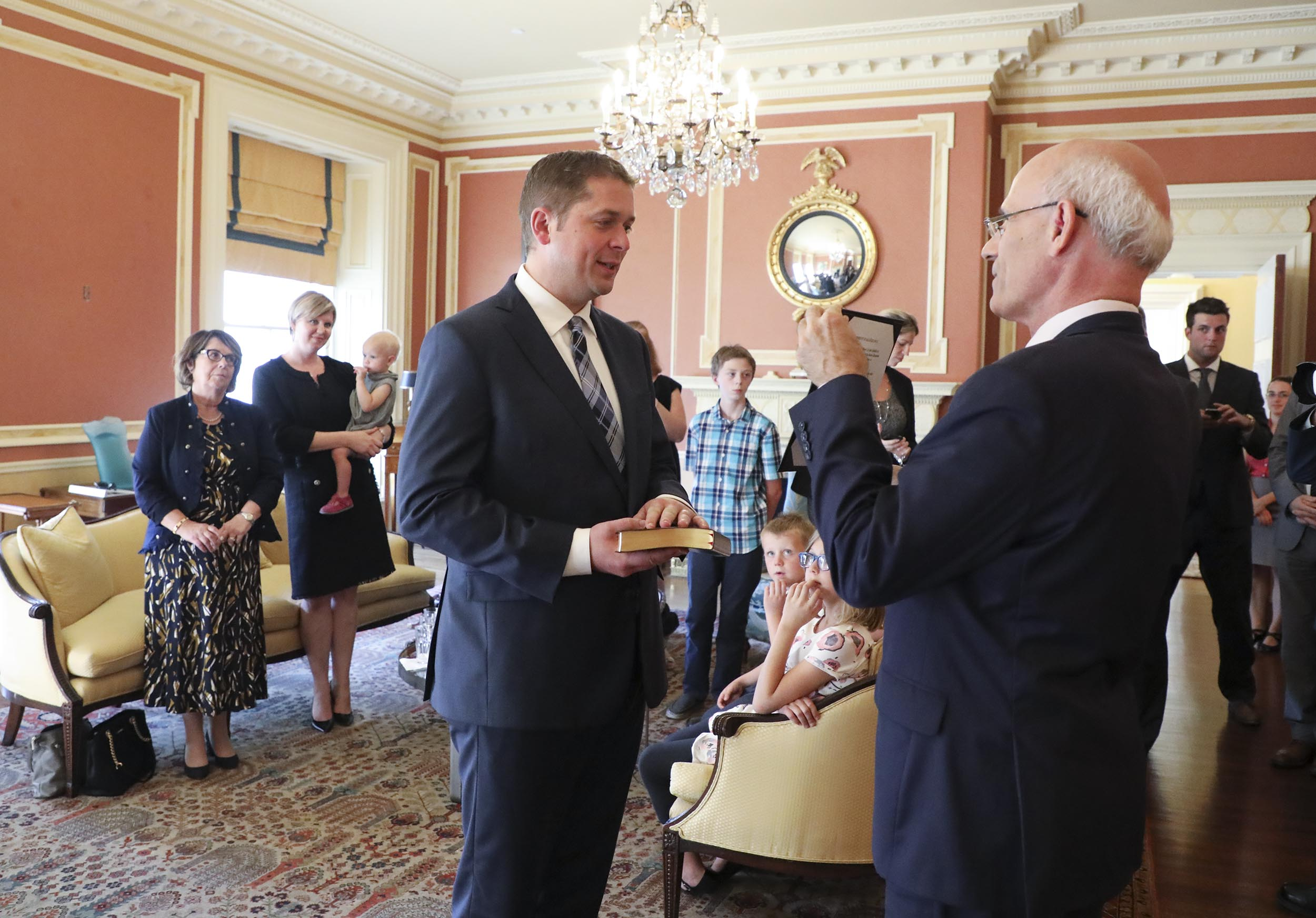 Yesterday, with my family by my side, I was humbled to be sworn into the Privy Council by Governor General David Johnston. Thank you to Prime Minister @JustinPJTrudeau for the honour. Hier, avec ma famille à mes côtés, j’ai eu l’honneur d’être assermenté au Conseil privé par le gouverneur général David Johnston. Merci au premier ministre @JustinPJTrudeau pour cet honneur. Location: Large Drawing Room, Rideau Hall, Ottawa